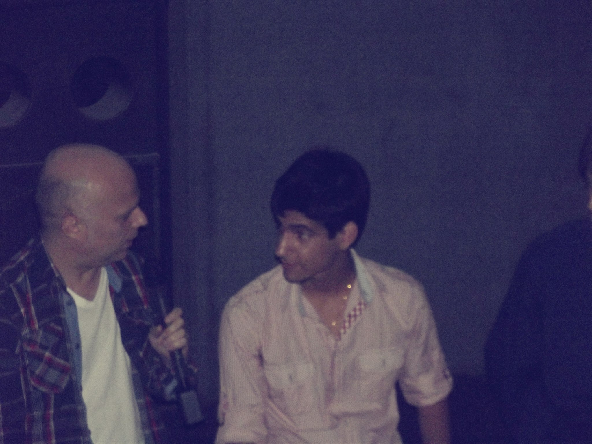 Sebastian Wainraich & Nicolas Ponta